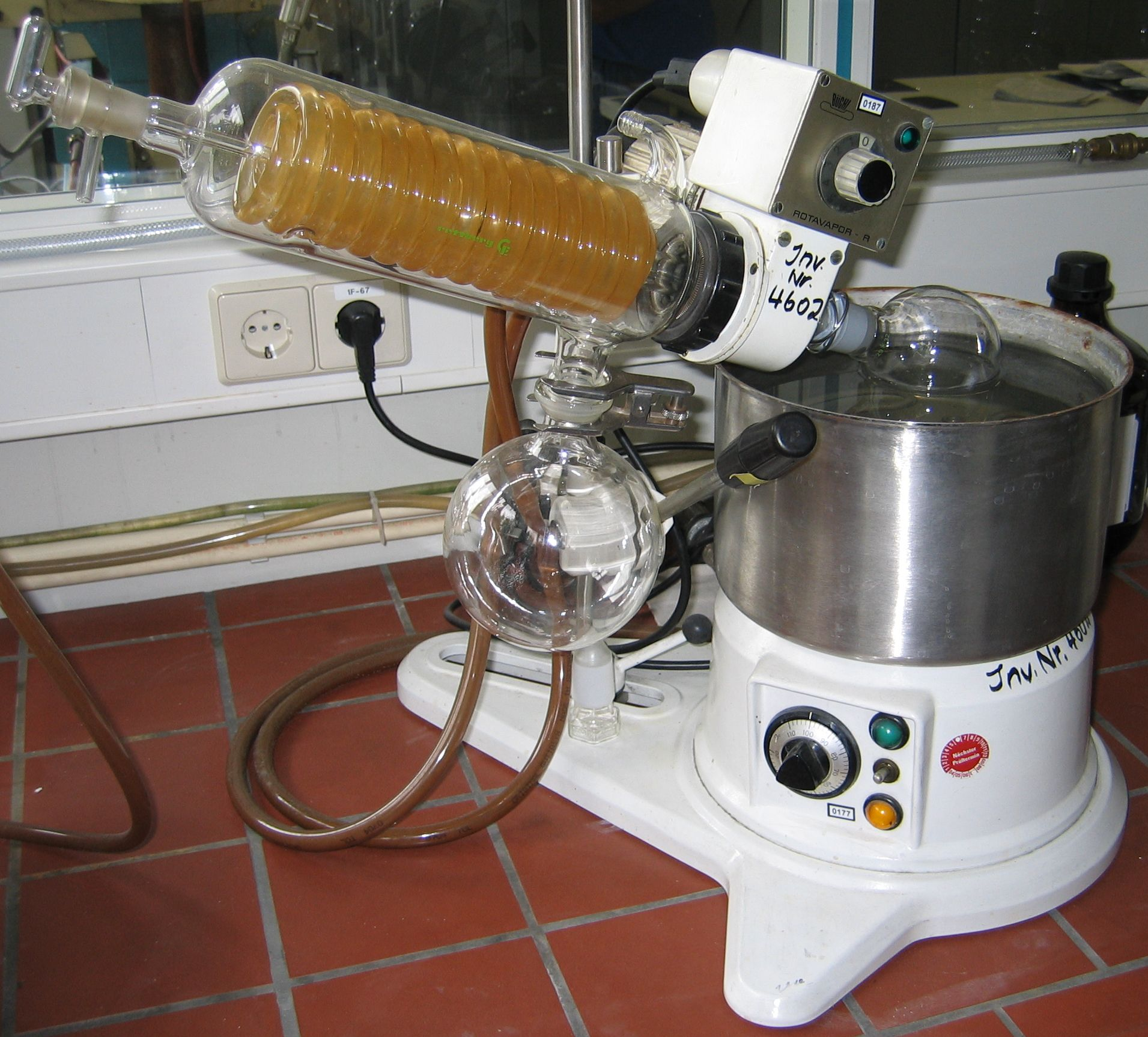 Rotary Evaporator – Büchi Rotavapor R. Cooling coil brown from rust.